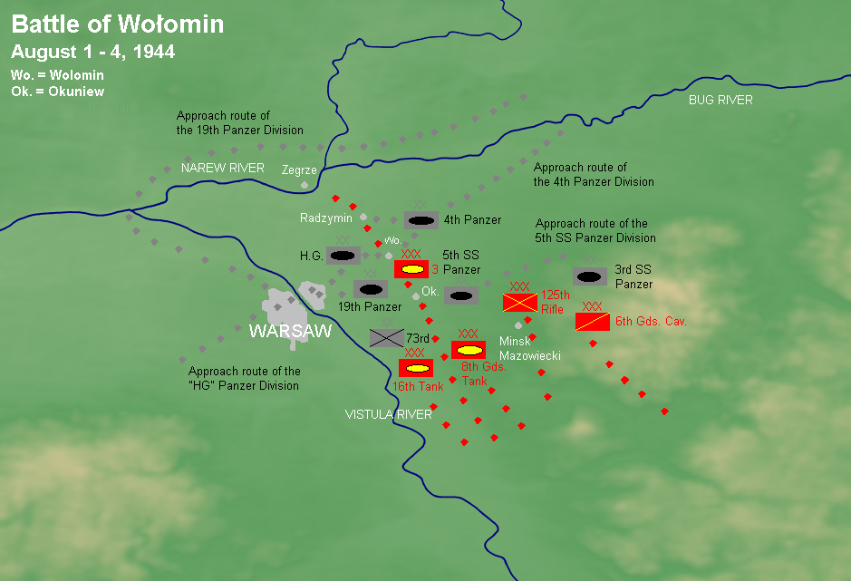 Made by W.B. Wilson with MapCreator 1.0 software. The maps created with MapCreator 1.0 can be used in all media and require no licence. for details.